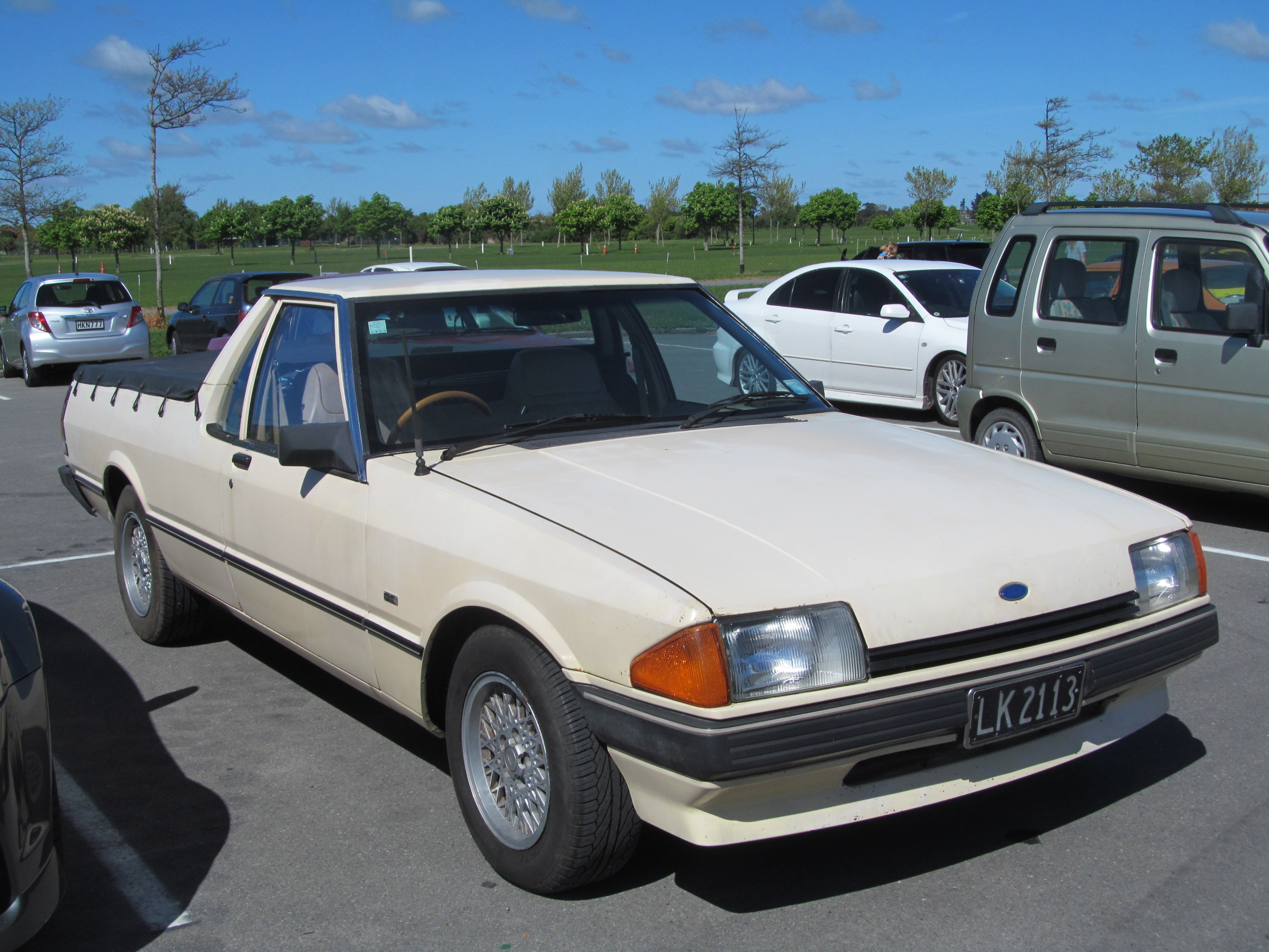 A pretty straight and clean XE ute; most of these that remain are heavily modified. CarJam shows it to have travelled 213k in mid 2016.